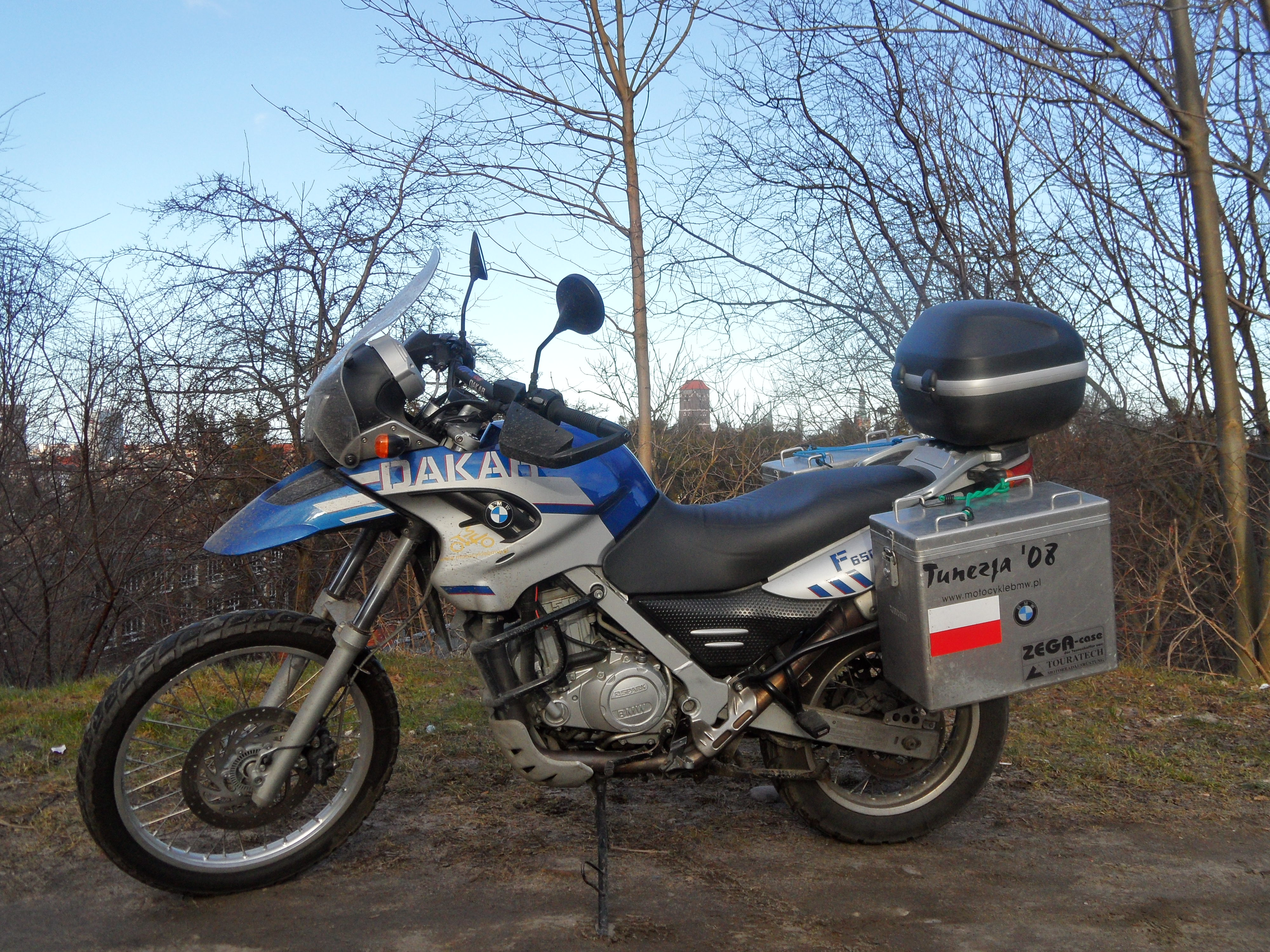 Motorbike BMW F 650 GS Dakar in Gdańsk